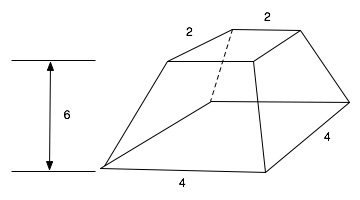 diagram explaining solid described in problem 14 of the Moscow papyrus